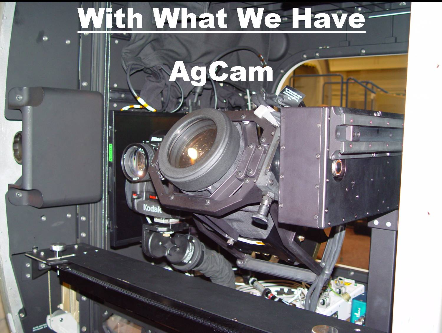 Image of AgCam during NASA test